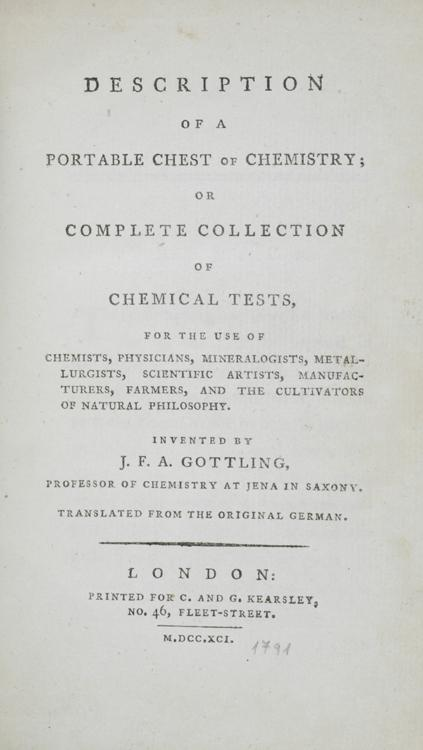 title page of Description of a portable chest of chemistry : or, Complete collection of chemical tests for the use of chemists, physicians, mineralogists, metallurgists, scientific artists, manufacturers, farmers, and the cultivators of natural philosophy / invented by J.F.A. Gottling ; translated from the original German. London : Printed for C. and G. Kearsley, 1791.